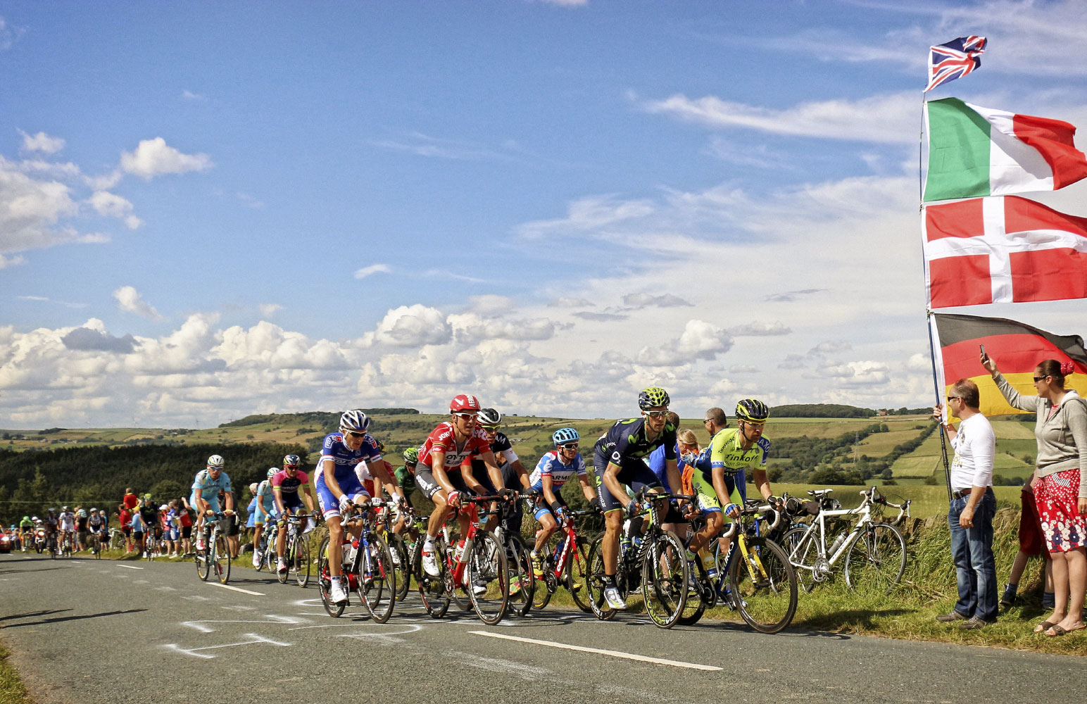 Le Tour est arrivé !